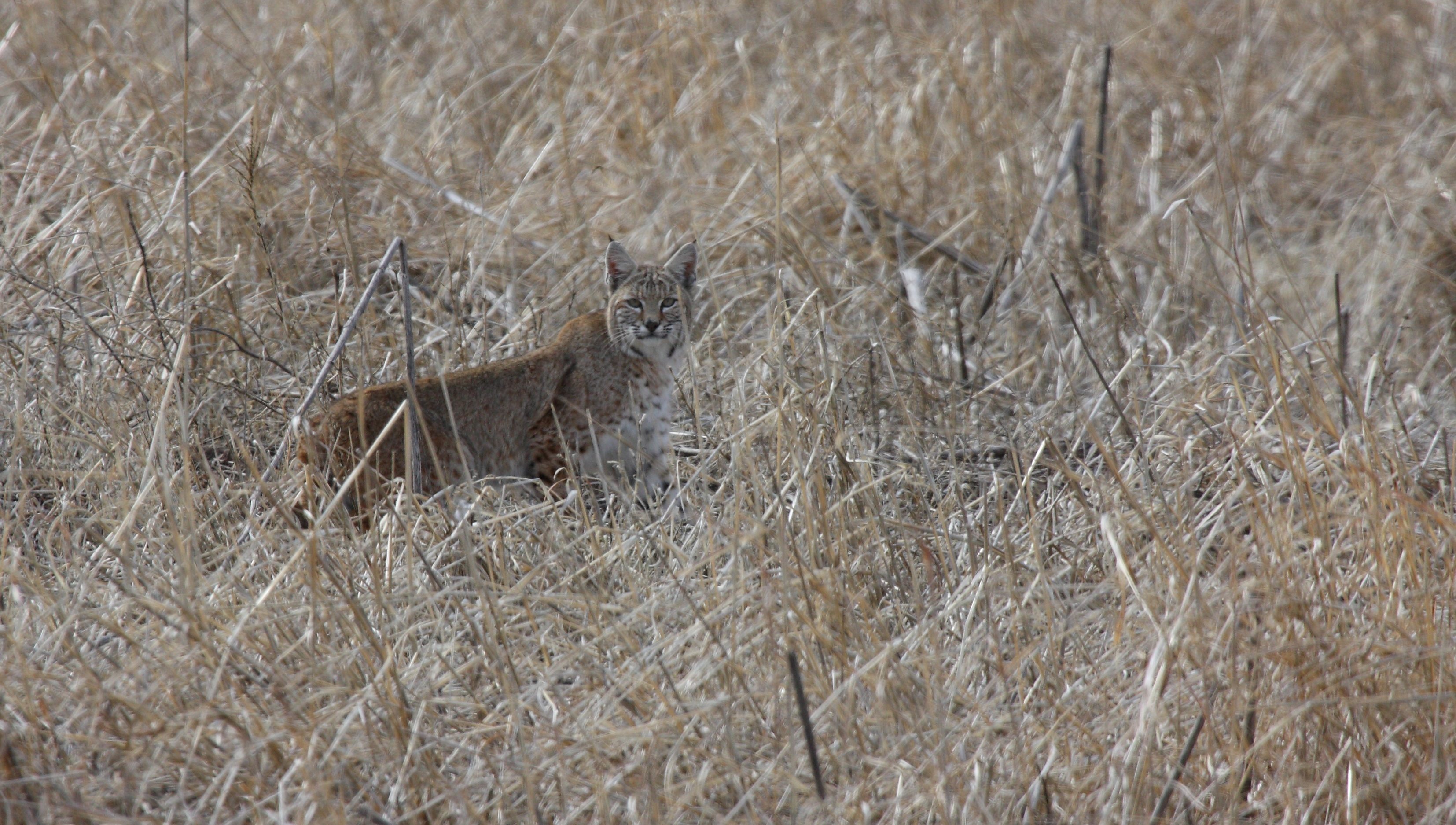 Bobcat (Lynx rufus), San Rafael Grassland, Arizona, USA